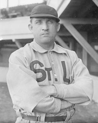 Jesse Burkett of St. Louis at South Side Park in 1903.